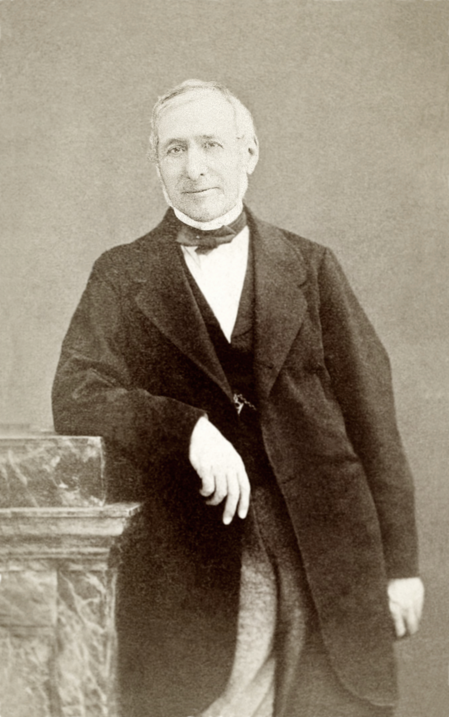 Alphonse Pyramus de Candolle (1806 - 1893), Swiss botanist.